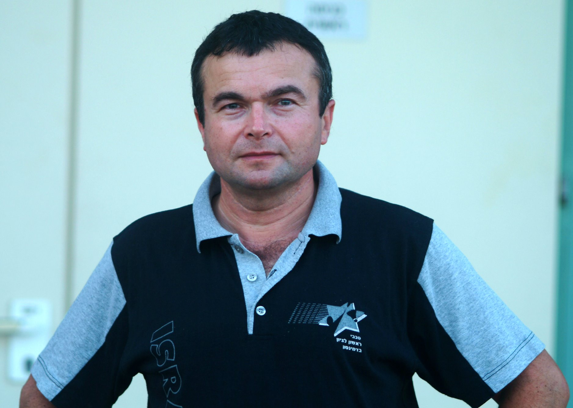 Israeli player and coach Victor Yusim